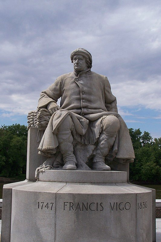 Statue of Francis Vigo that resides at the waterfront of Vincennes, Indiana. Image taken by uploader. Statue was sculpted by John Angel.